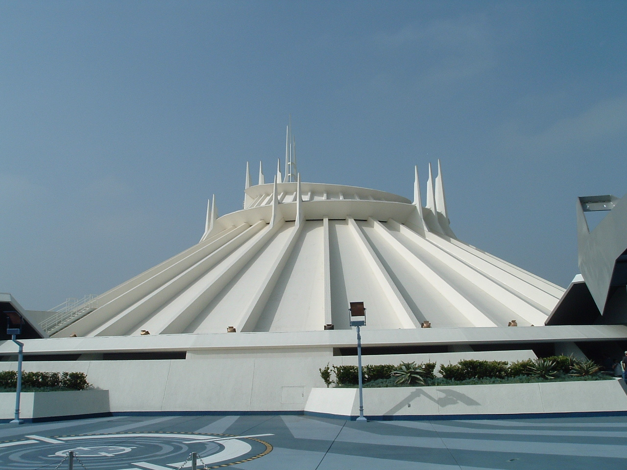 Space Mountain at Disneyland